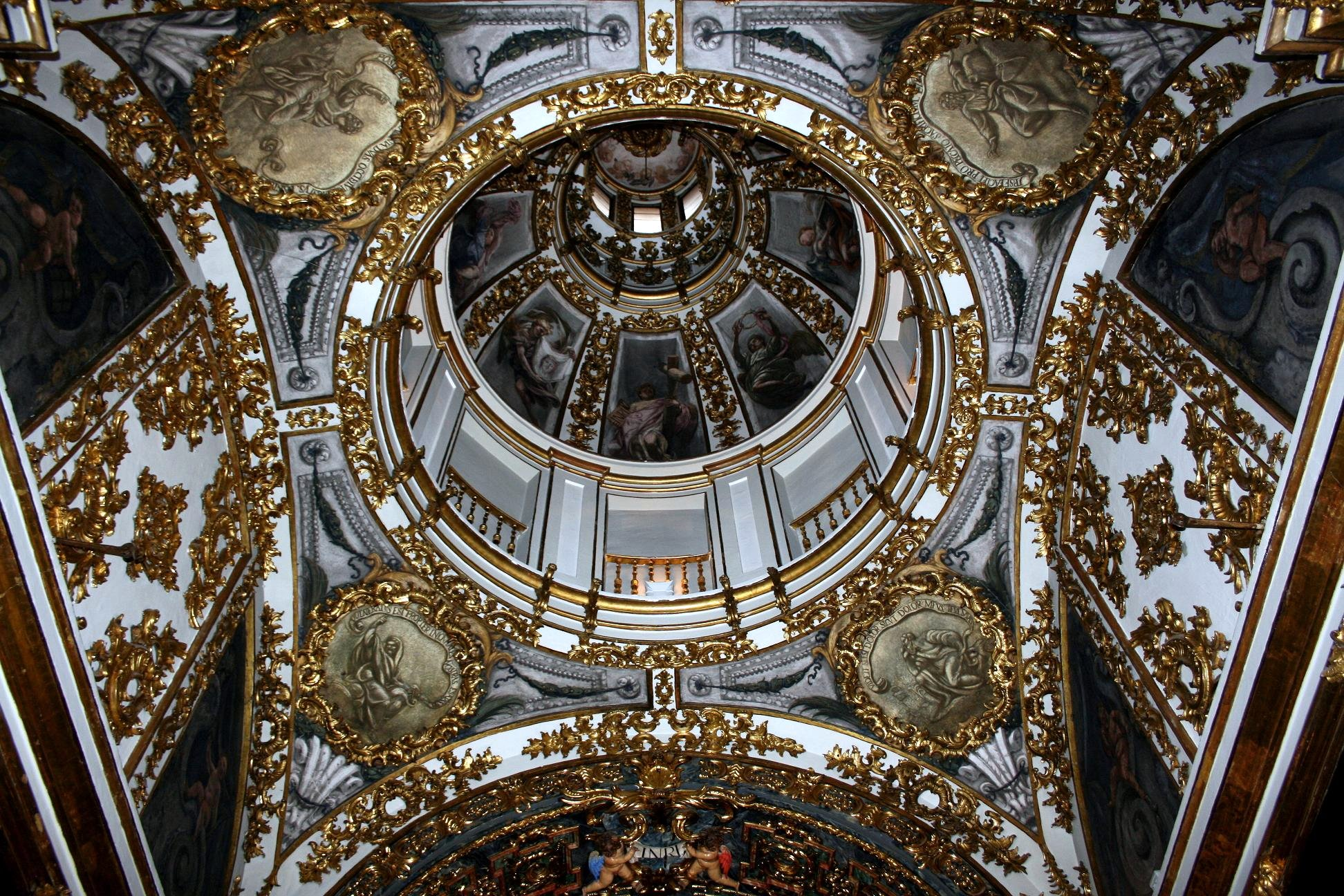 Detail of the interior of Colegiata de San Isidro (Collegiate Church of St. Isidore) in Madrid (Spain).